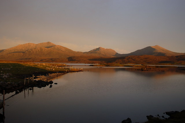 Loch Druidibeg. Low evening sunset across Loch Druidibeg illuminating (left to right)Hecla, Ben Corodale and Beinn Mhor.